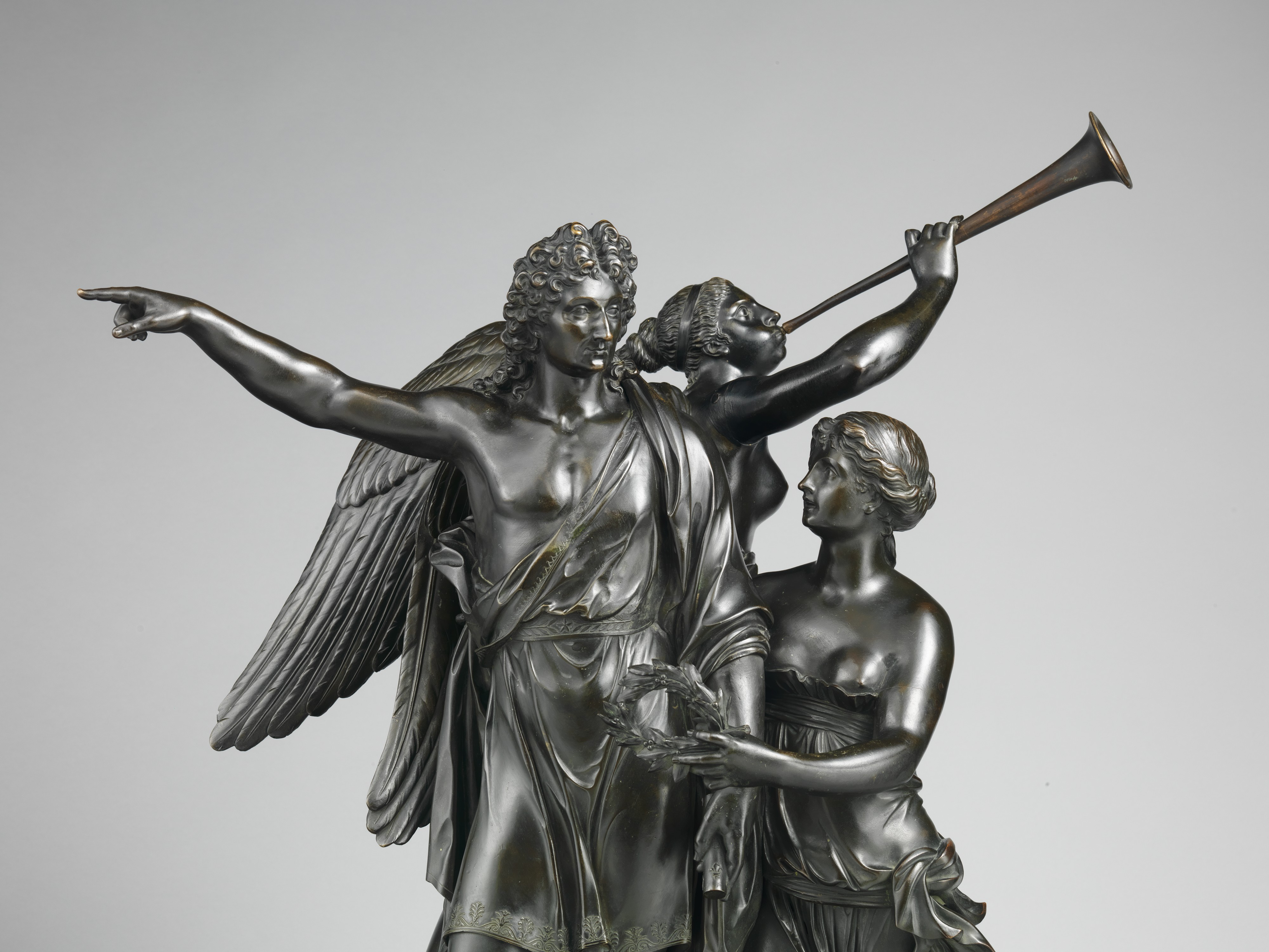 French, Paris; Group; Sculpture-Bronze